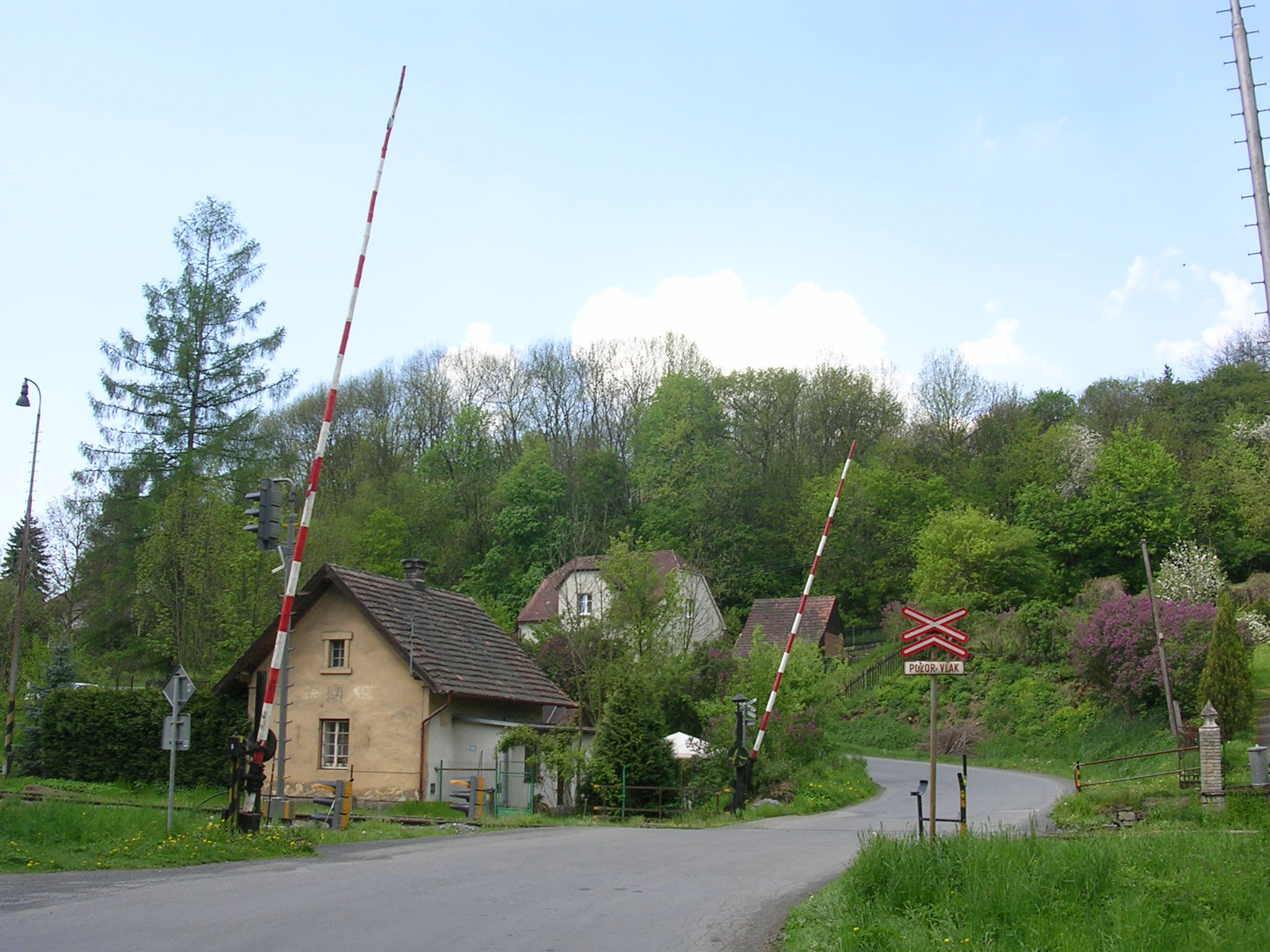 Zbečno, the Czech Republic.